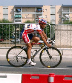 Cropped version. Cristian Moreni during the Tour de France 2006